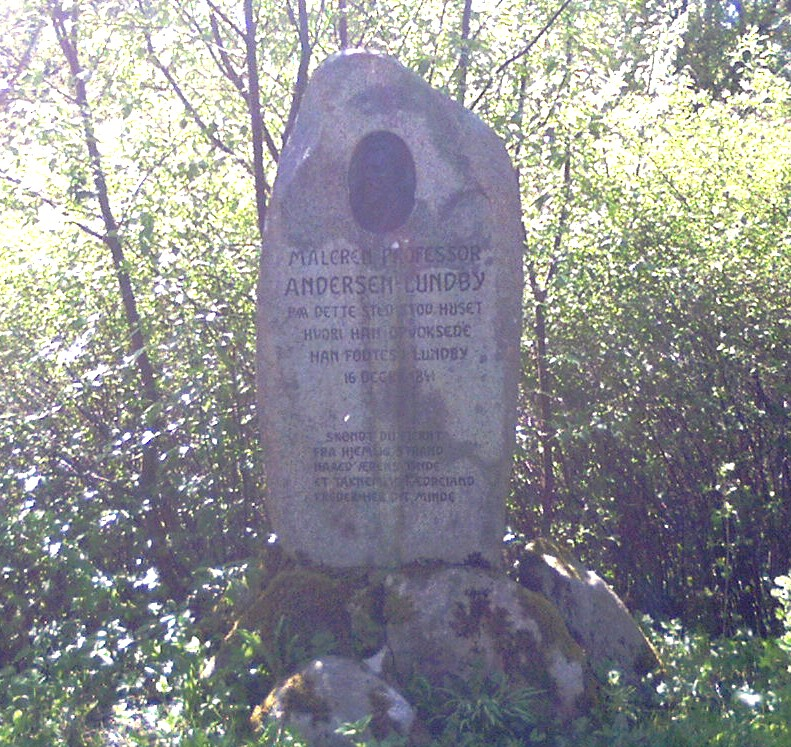 Monument for the painter Danish Anders Andersen-Lundby (1841-1923) in Lundby Bakker near Aalborg, Denmark